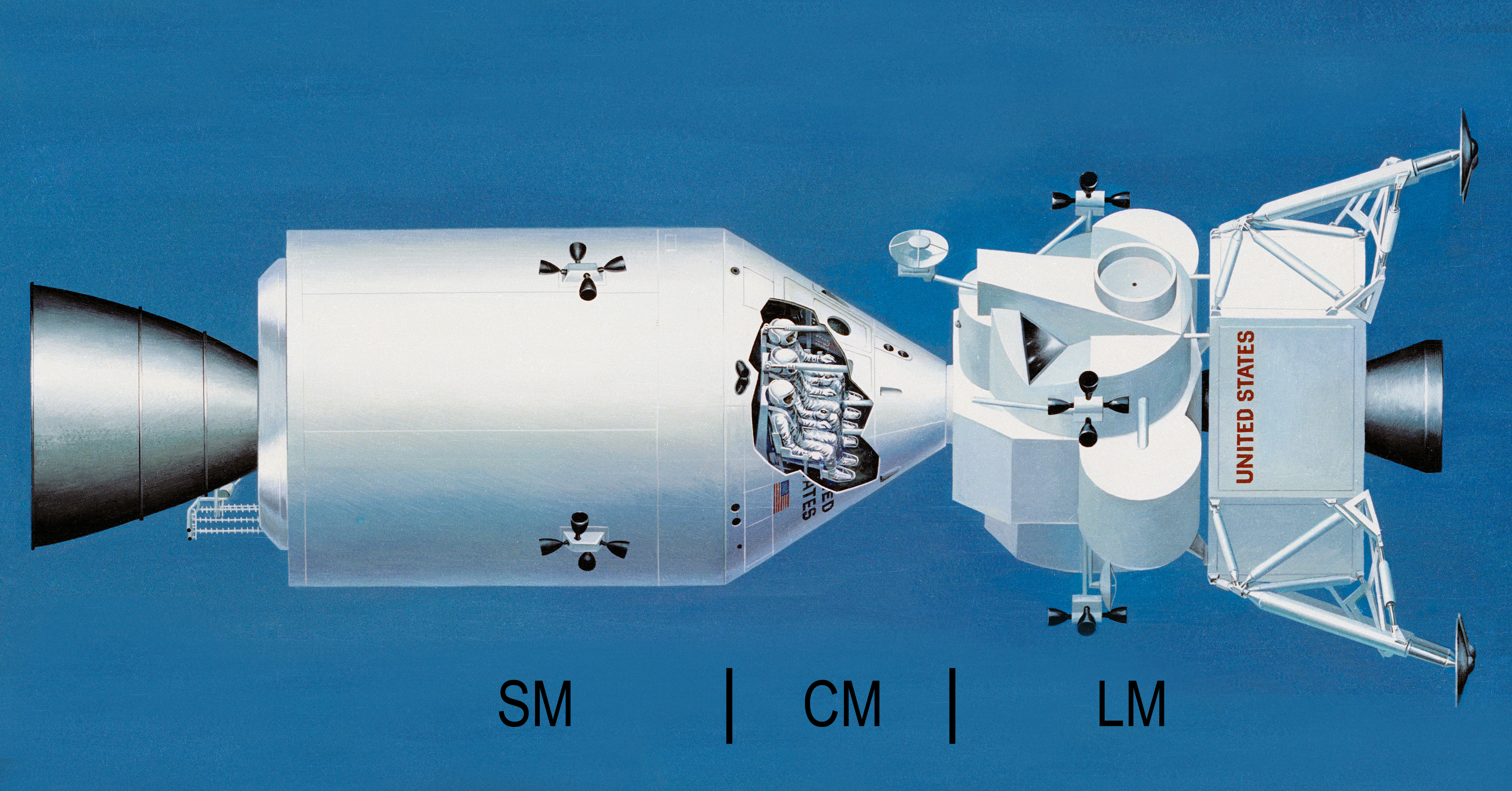 Apollo CMS-LM spacecraft